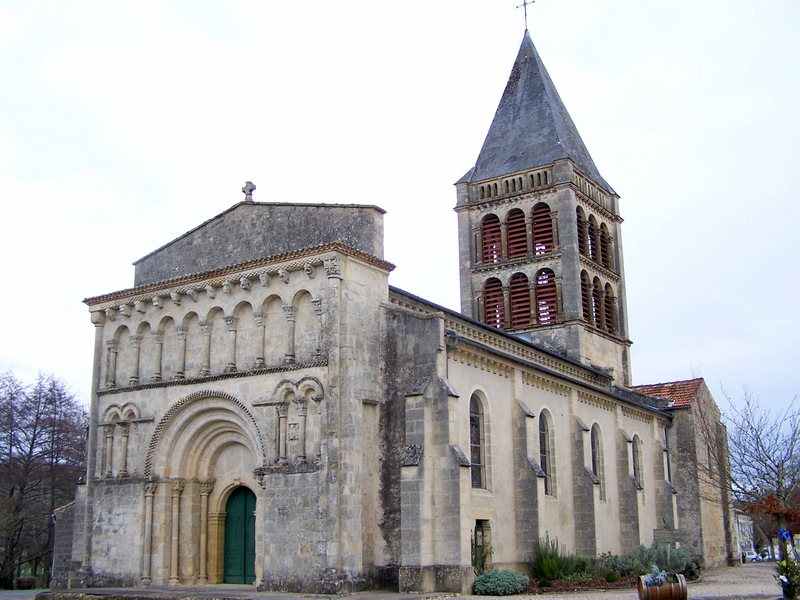 Church of Aillas (Gironde, France)